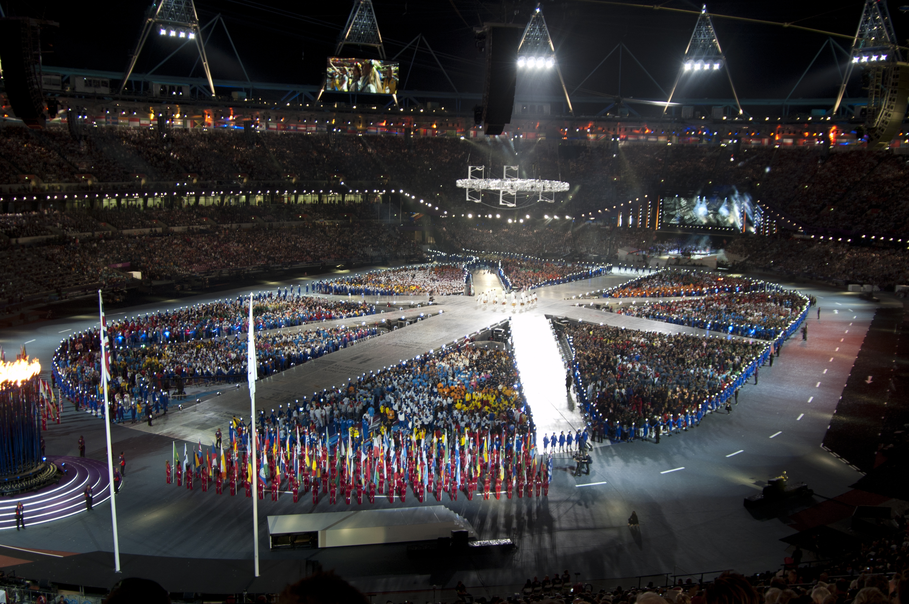 Athletes assembled in the shape of a Union Jack at the 2012 Olympic Closing Ceremony.